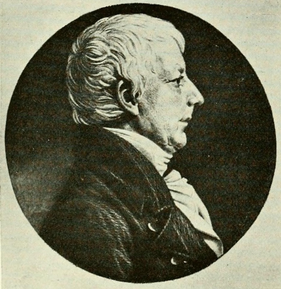 James Calhoun, first Mayor of Baltimore, Maryland.